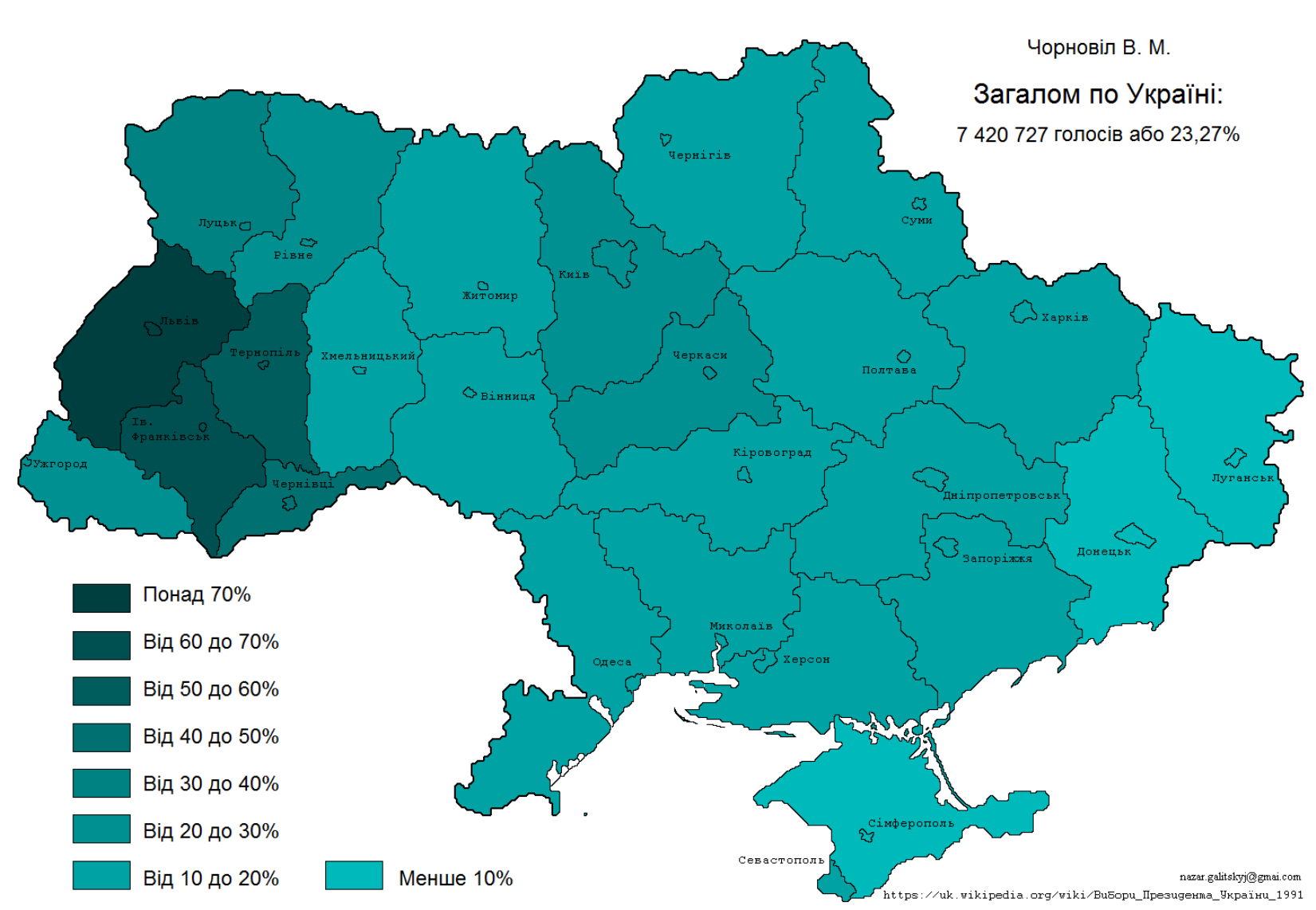 Рівень підтримки Чорновола В. М. по областях